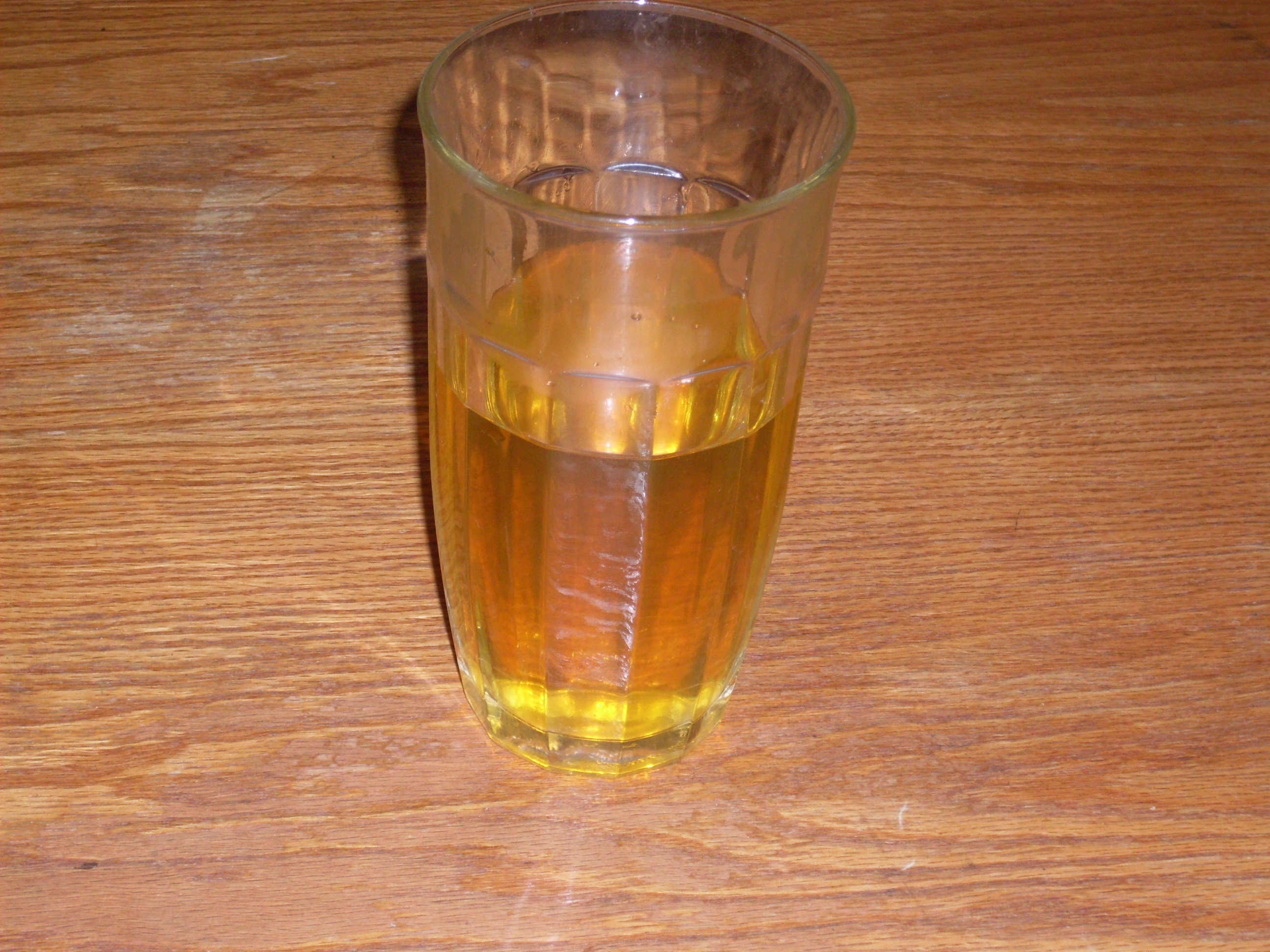 A human urine sample in a glass.